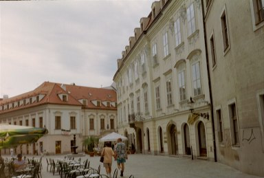 Bratislava town centre square, photo by Asterion